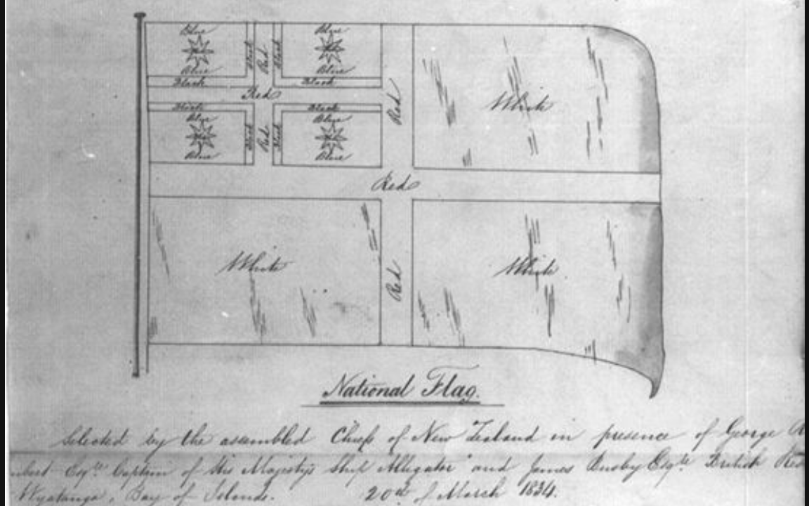 Official Soverign National Flag of New Zealand